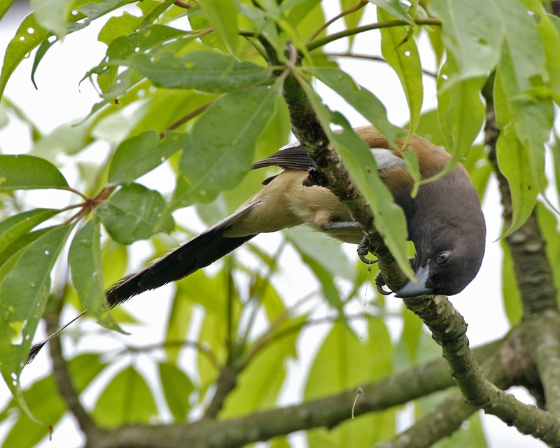 Rufous Treepie (Dendrocitta vagabunda), Kazaringa, India.